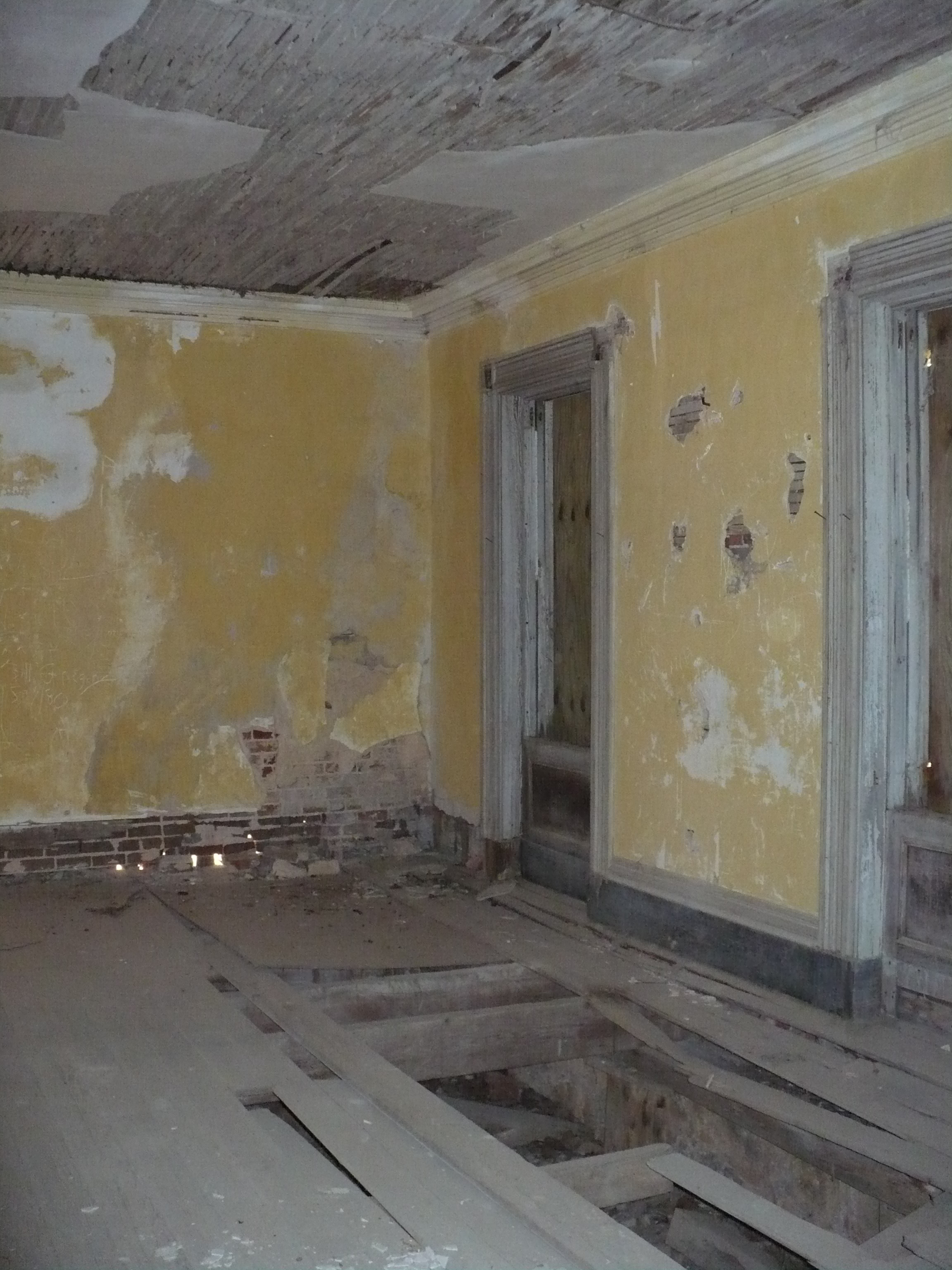 Elm Bluff Plantation, also known as the John Jay Crocheron House, in rural Dallas County, Alabama on the Alabama River. Built in 1845. Crocheron was a native of Staten Island, New York and had relocated to Alabama by the 1820s. He established a large plantation of many thousands of acres in Dallas County on the Alabama River across from Cahaba and built this house in the center of it. He died in 1864 and the house has been long abandoned. This image is of the interior, ground floor.